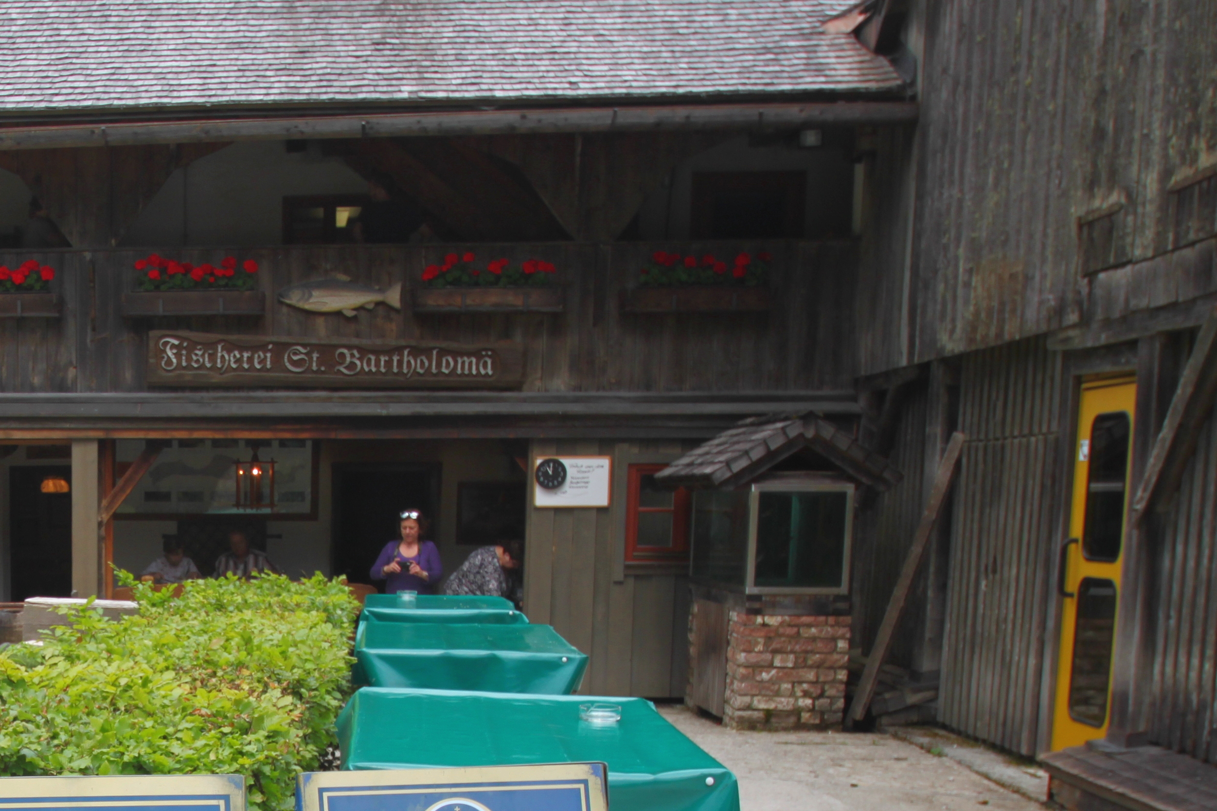 Offer boards before Fischerstüberl St. Bartholomä am Koenigssee.